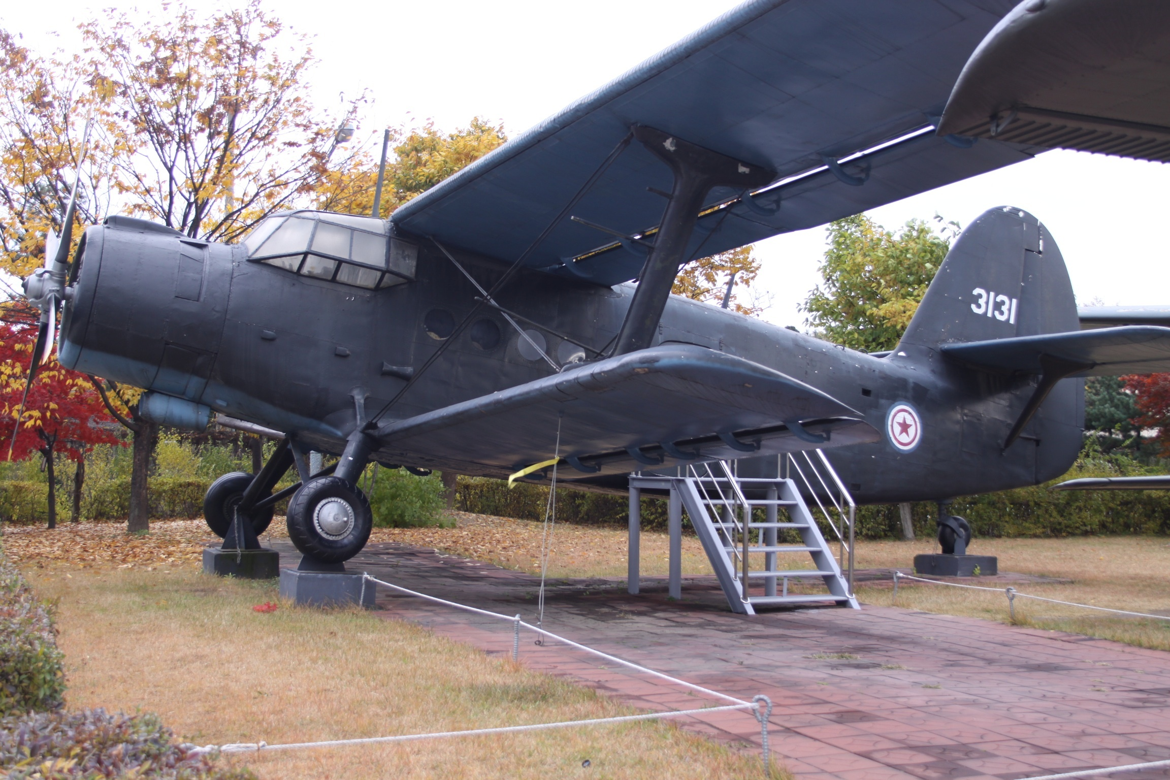 At War Memorial Museum - Seoul - Republic of Korea